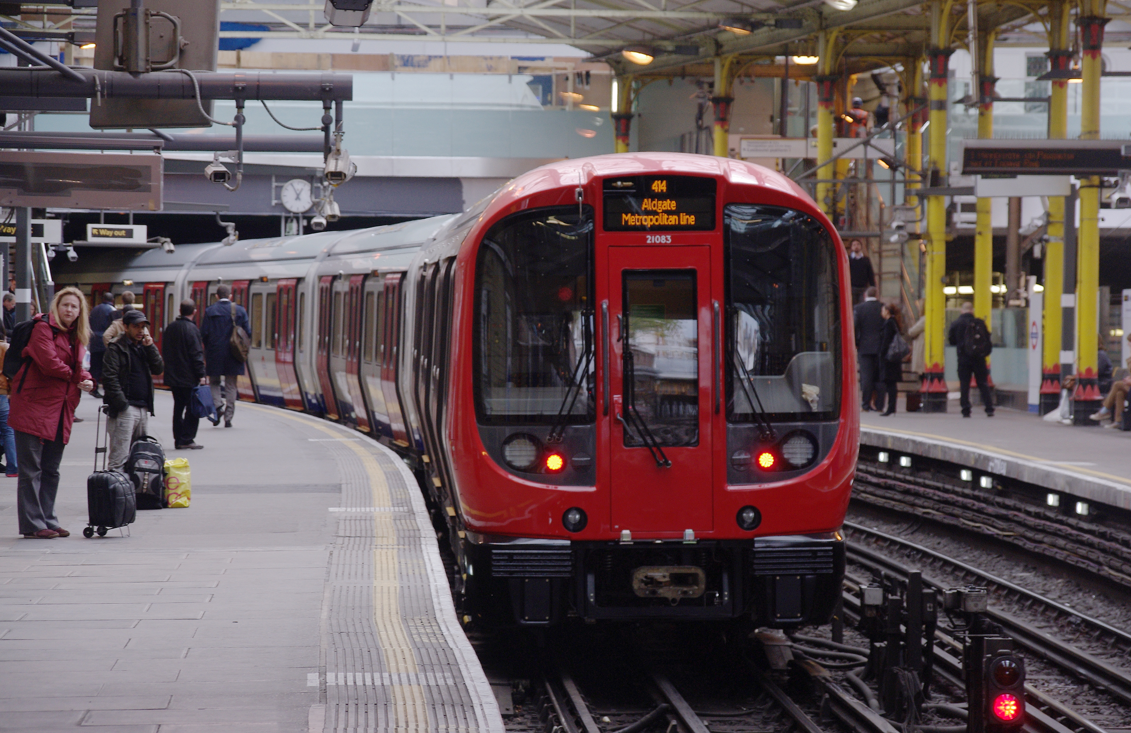 A new London Underground S Stock train departs Farringdon with a Metropolitan Line service to Aldgate.